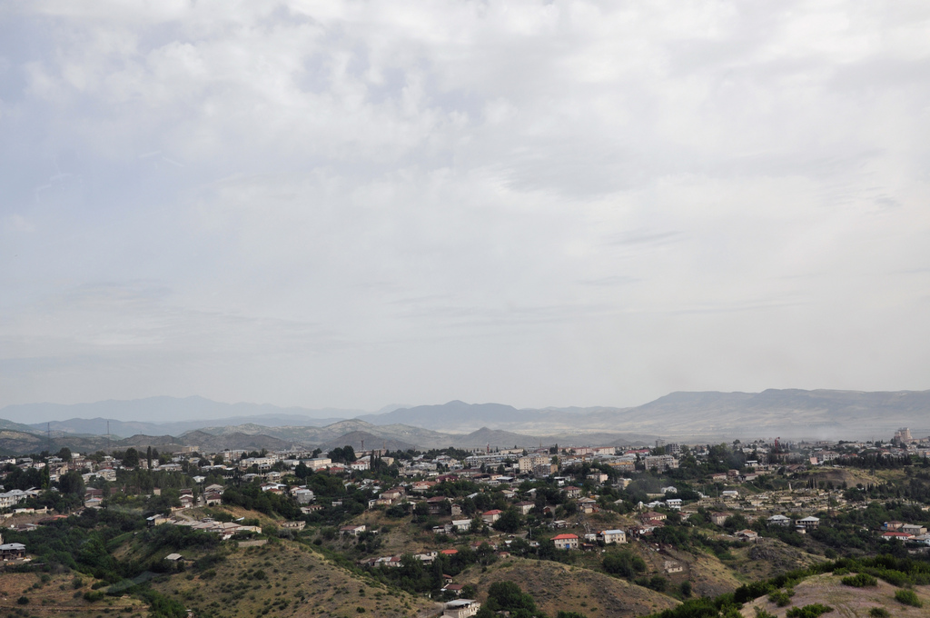 Stepanakert city